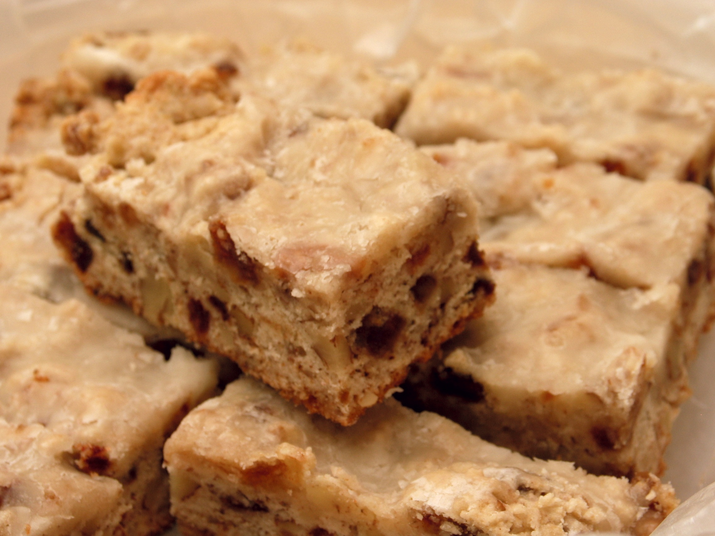 For Wikicookbooks